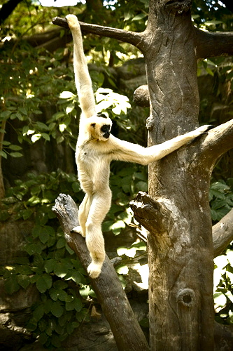 Brachiating Gibbon